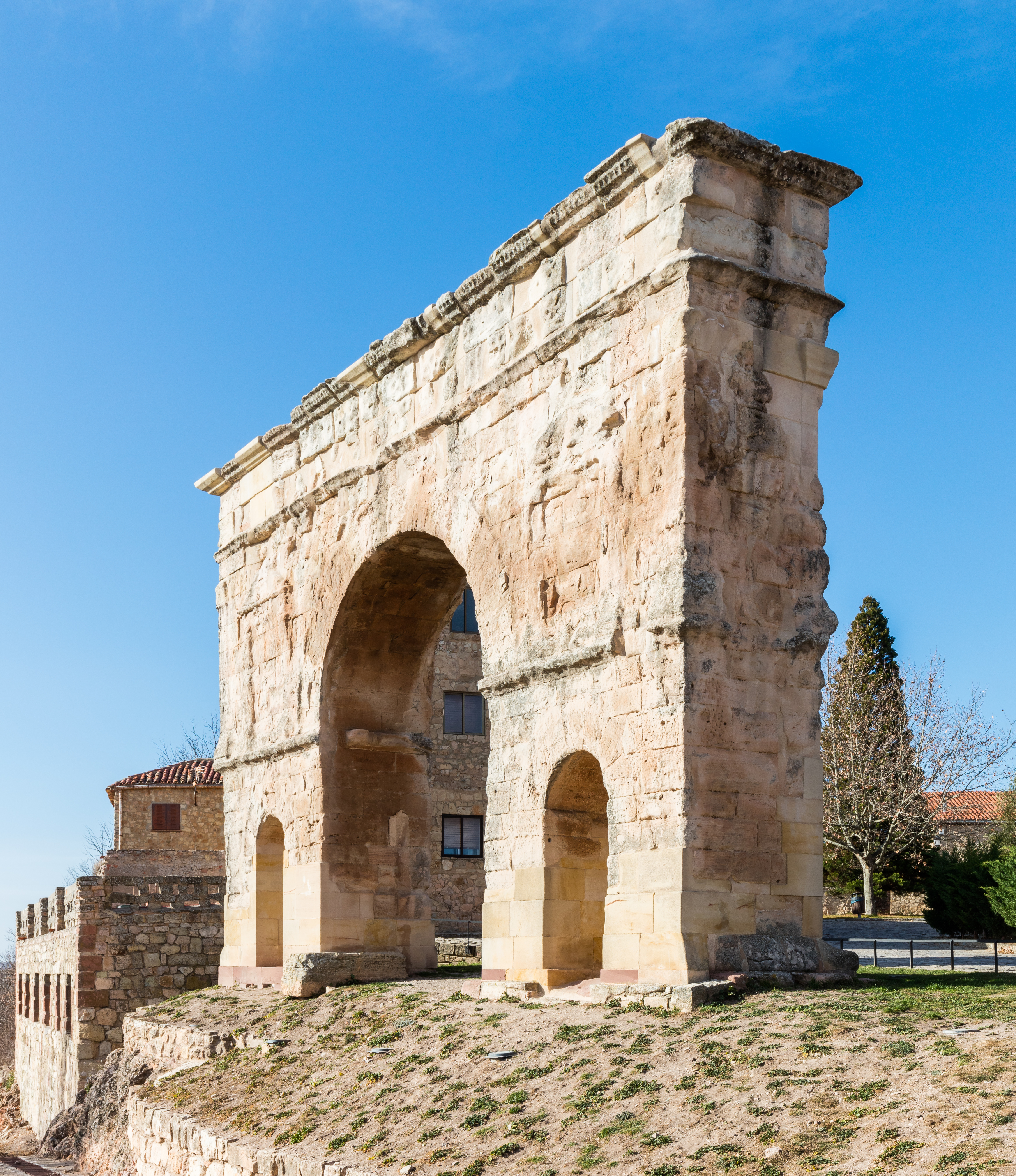 Ancient roman arch, Medinaceli, Soria, Spain